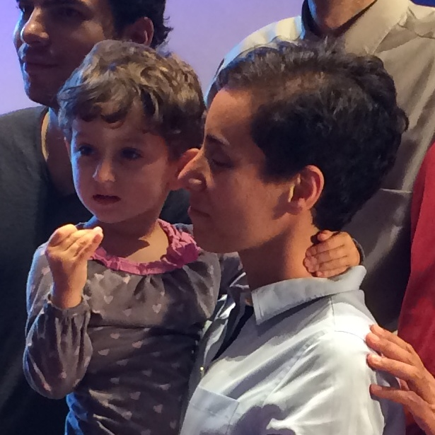 Fields medallist Maryam Mirzakhani, the first woman to receive the prize, with her daughter Anahita at the ICM 2014 in Seoul, South Korea. Taken on 16 August 2014 at the Seoul COEX Convention and Exhibition Centre.